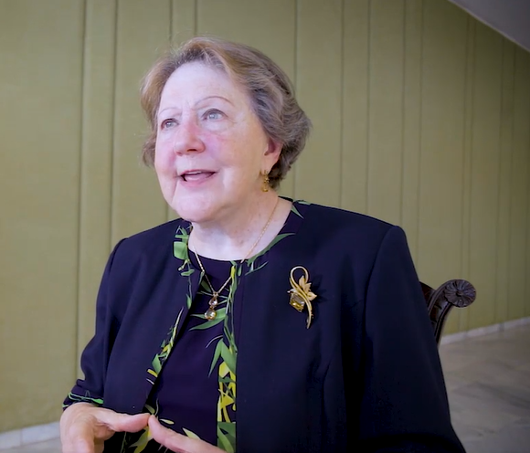 Brazilian Ambassador to Vietnam (2011-2014)